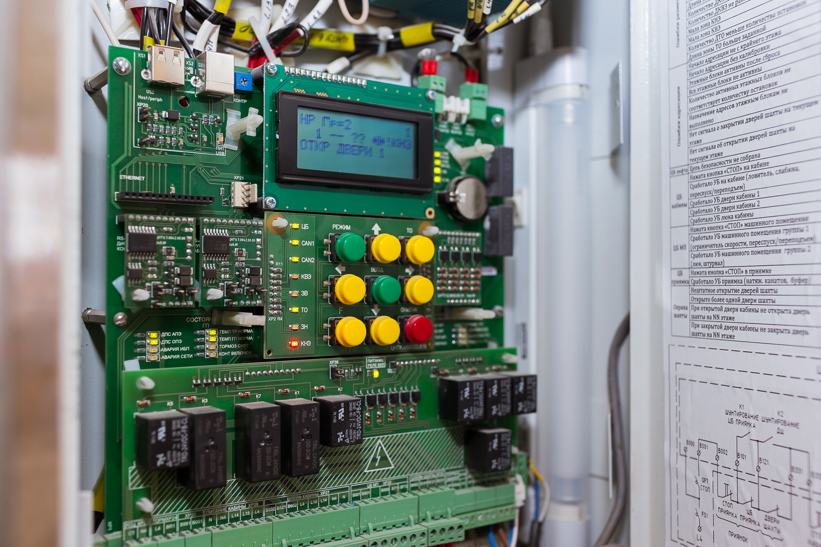 Motherboard of Elevator Control system SUL-2010 of VEK Elevator Company